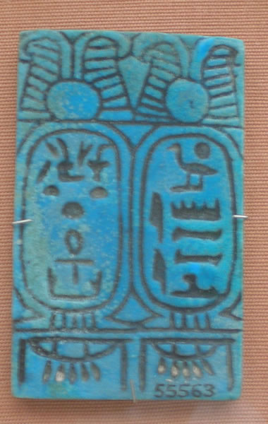 Cartouche of the Nubian king Anlamani, found at Nuri. Cartouche name, "Son of the Sun"-(Sa-Ra) "Anal-amani", A-n-L(the R)–A-mn-n-(the god Amun).